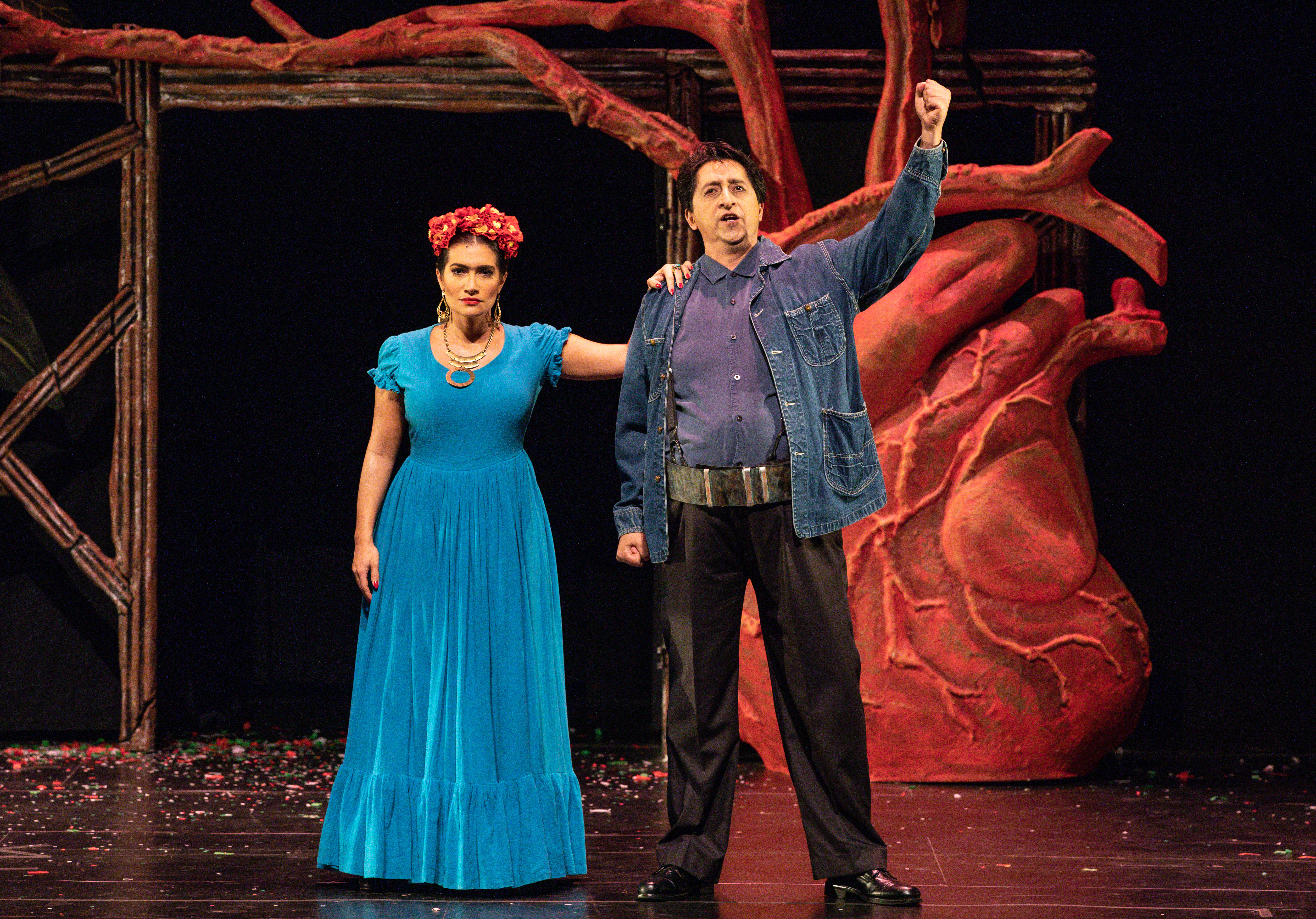 Frida Photo by Daniel Azoulay